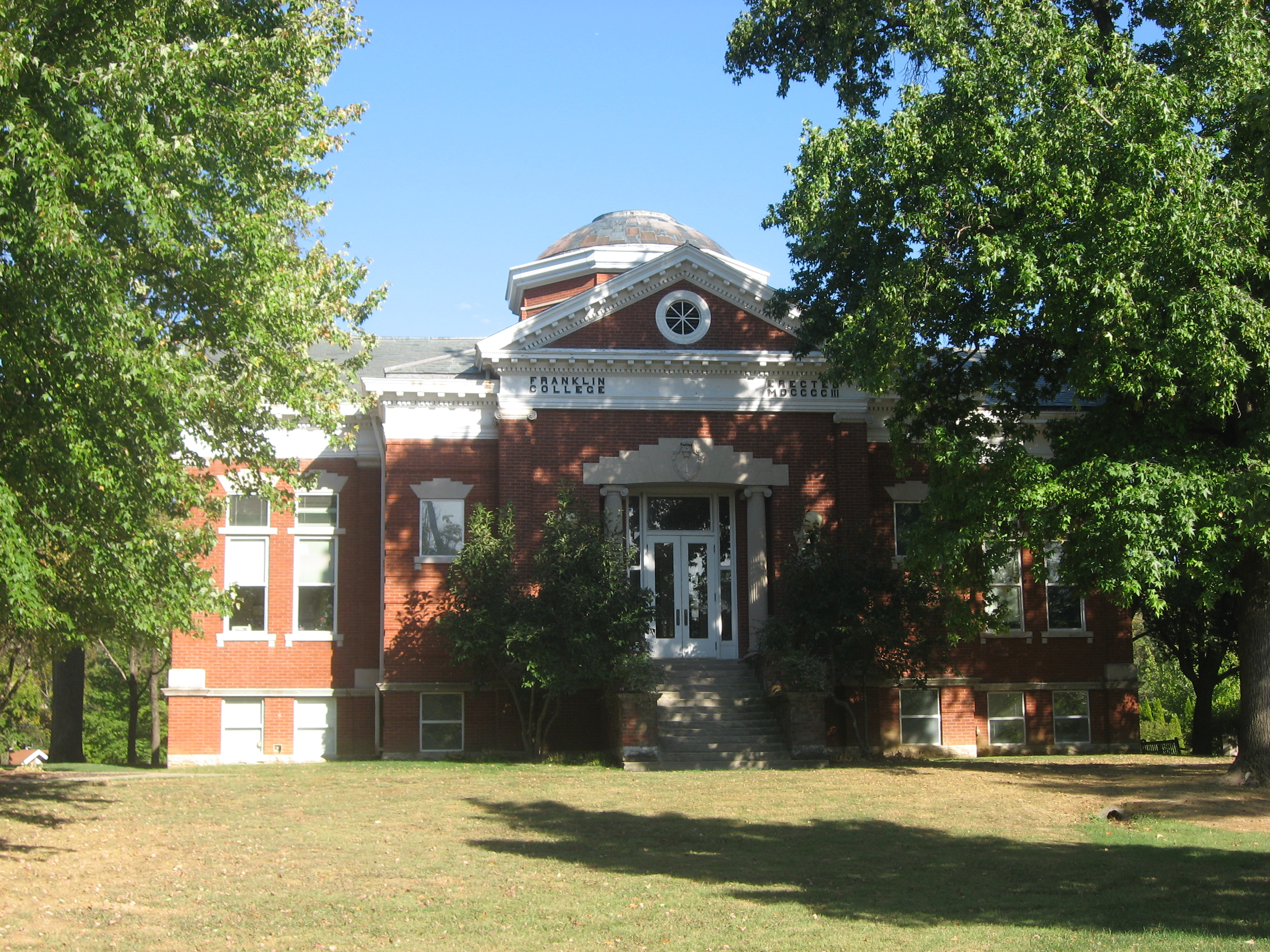 Front of Shirk Hall on the campus of Franklin College in Franklin, Indiana, United States. Built in 1903 as the campus library and today the home of the Pulliam School of Journalism, it is listed on the National Register of Historic Places.